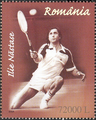 Stamps of Romania, 2004